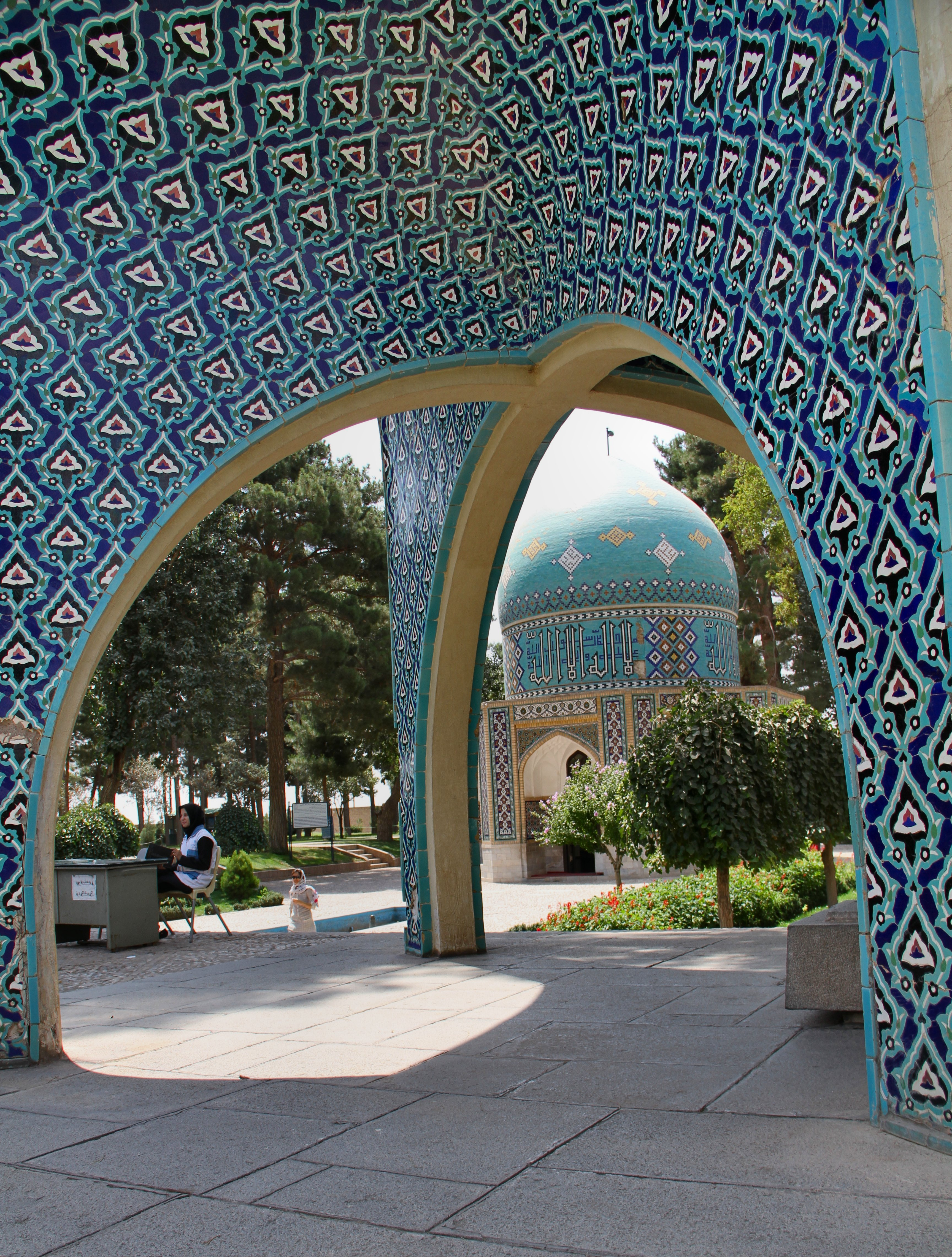 Attar tomb through the arch of Kamal ol molk tomb. Taken at Neyshapour, Khorassan province, Iran, August 2011